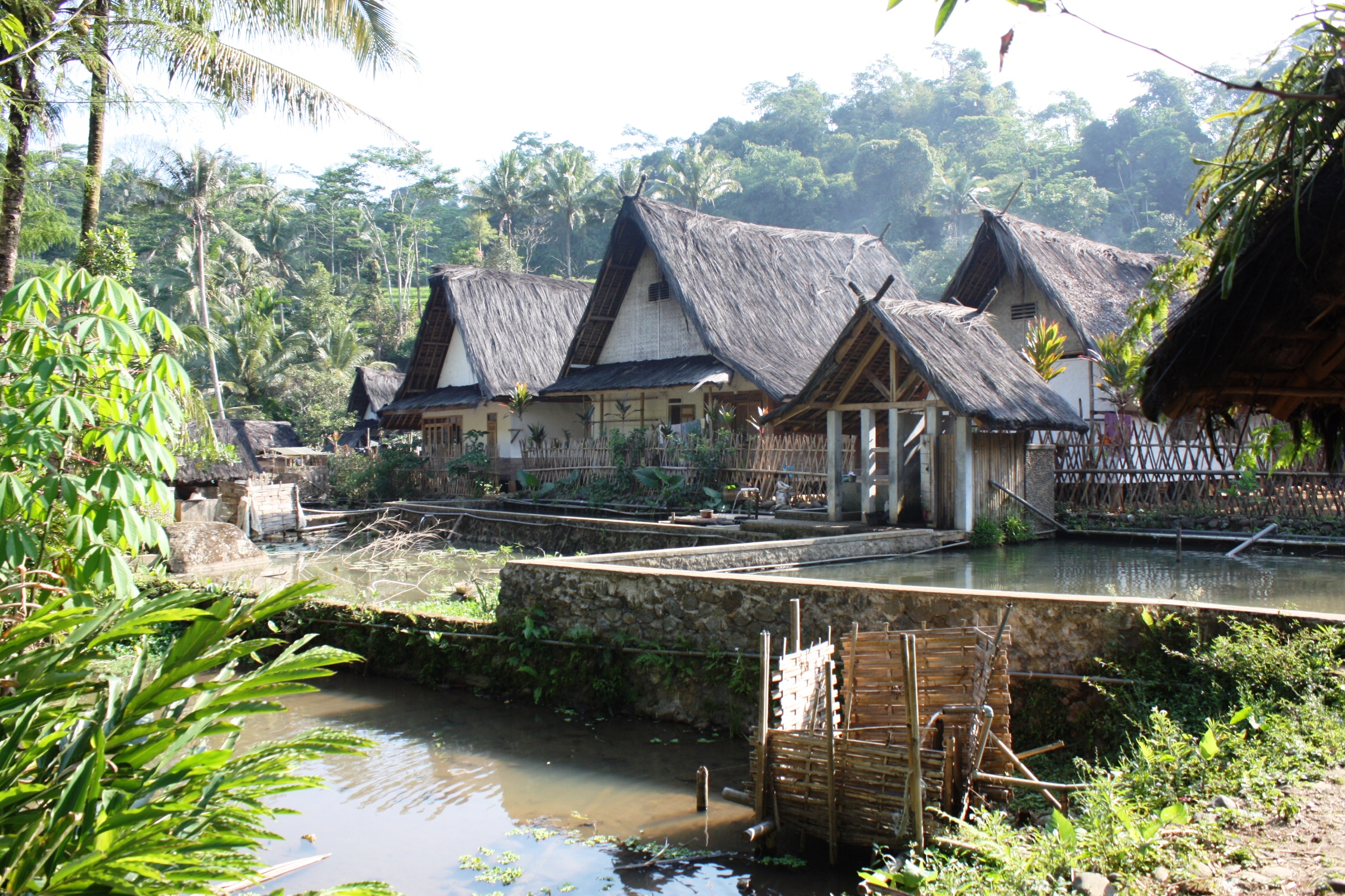 DSC00049/Java/ Kampung Naga/Pounds and commodities